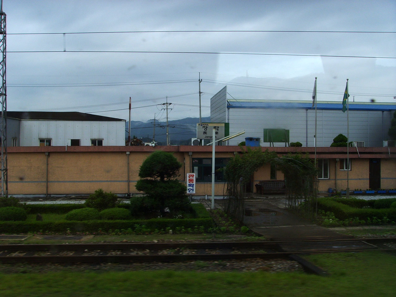 Taebaek Line Jangnak Station